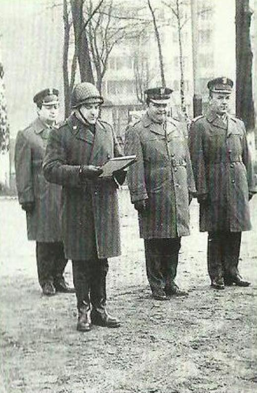 Garnizon Stargard, 1982r. Dowództwo 45 Batalionu Medycznego na uroczystej zbiorce. Szef sztabu mjr Wacław Krzysztofik odczytuje okolicznościowy rozkaz.